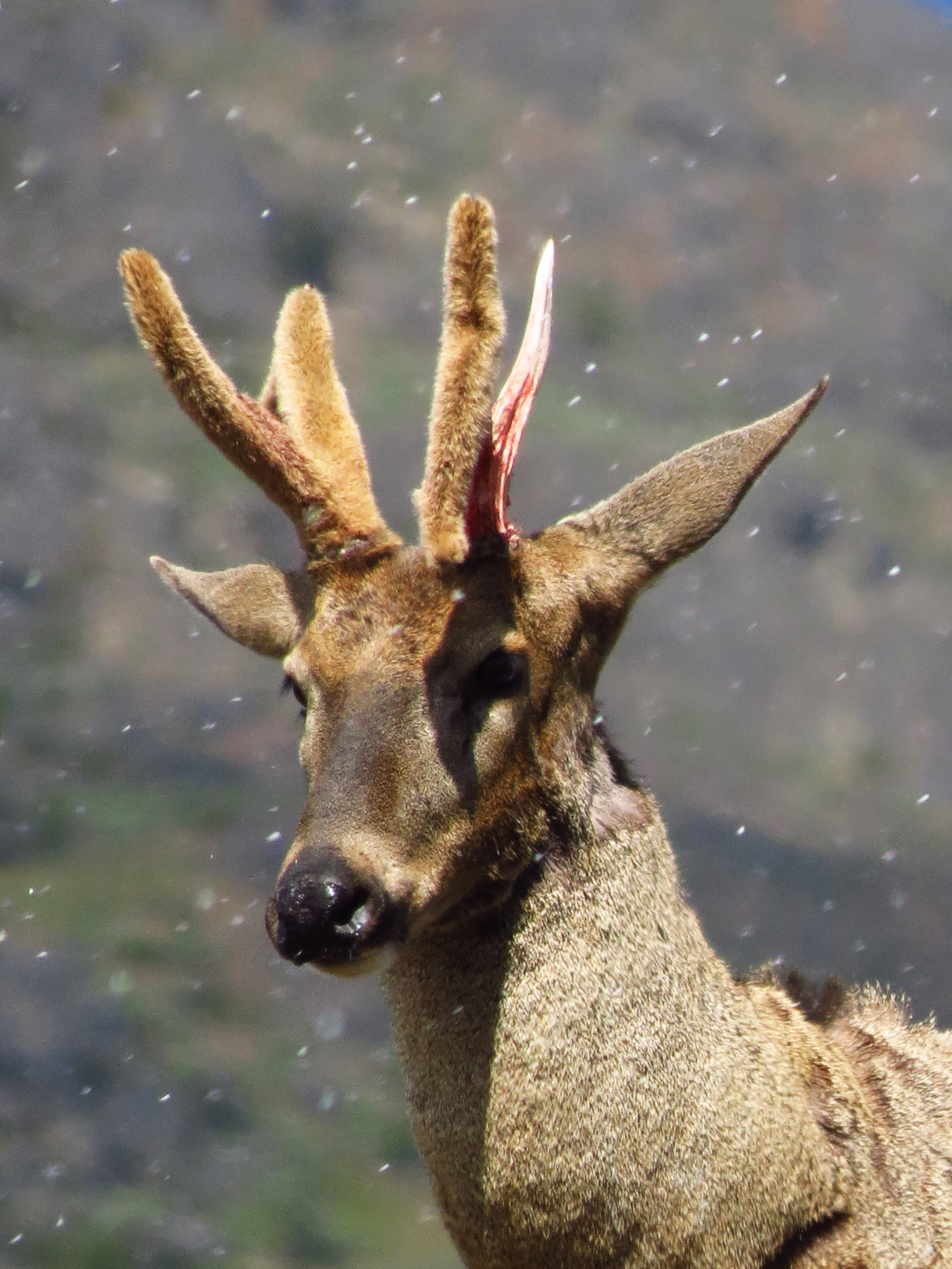 A south Andean deer (Hippocamelus bisulcus) in Tamango National Reserve, Chile